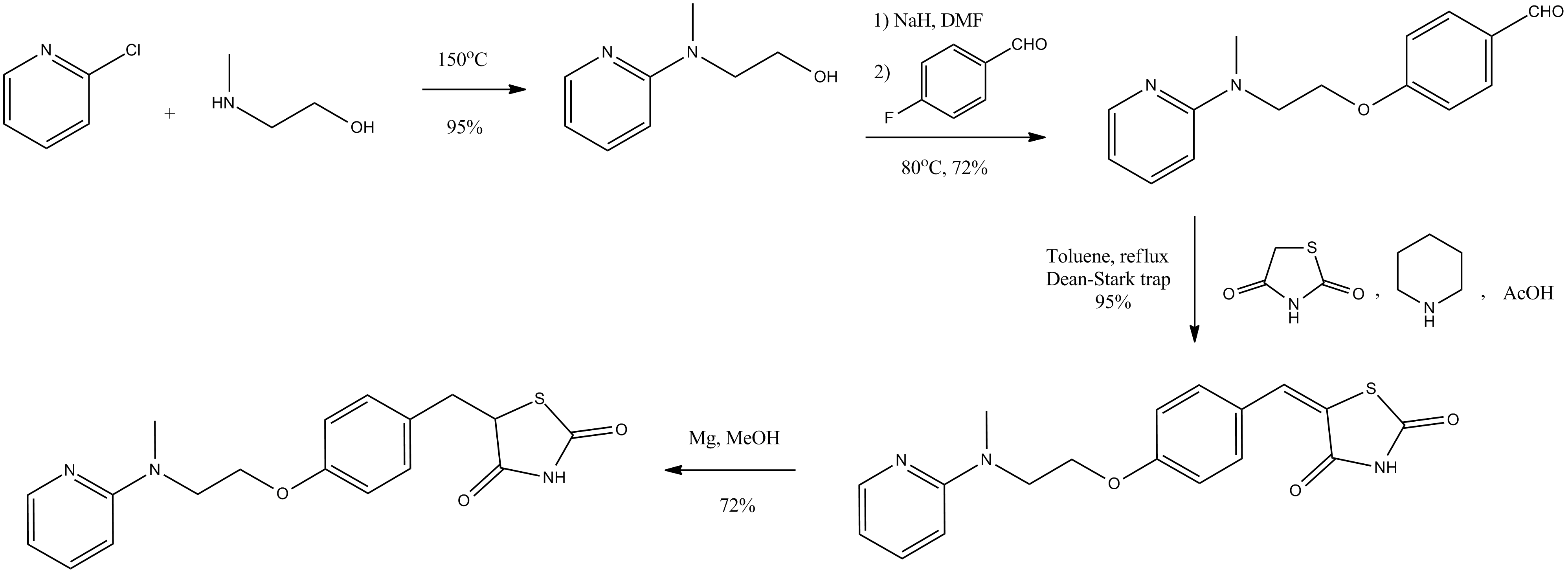 Hindly, R. M. Patents: AU8821738, EP306228, EP842925, JP8913169, JP97183726, JP97183771, JP97183772, JP98194970, JP98194971, US5002953, US5194443, US5232925, US5646169. Secondary Source: The Art of Drug Synthesis Douglas S. Johnson (Editor), Jie Jack Li (Editor) pp 121-122.